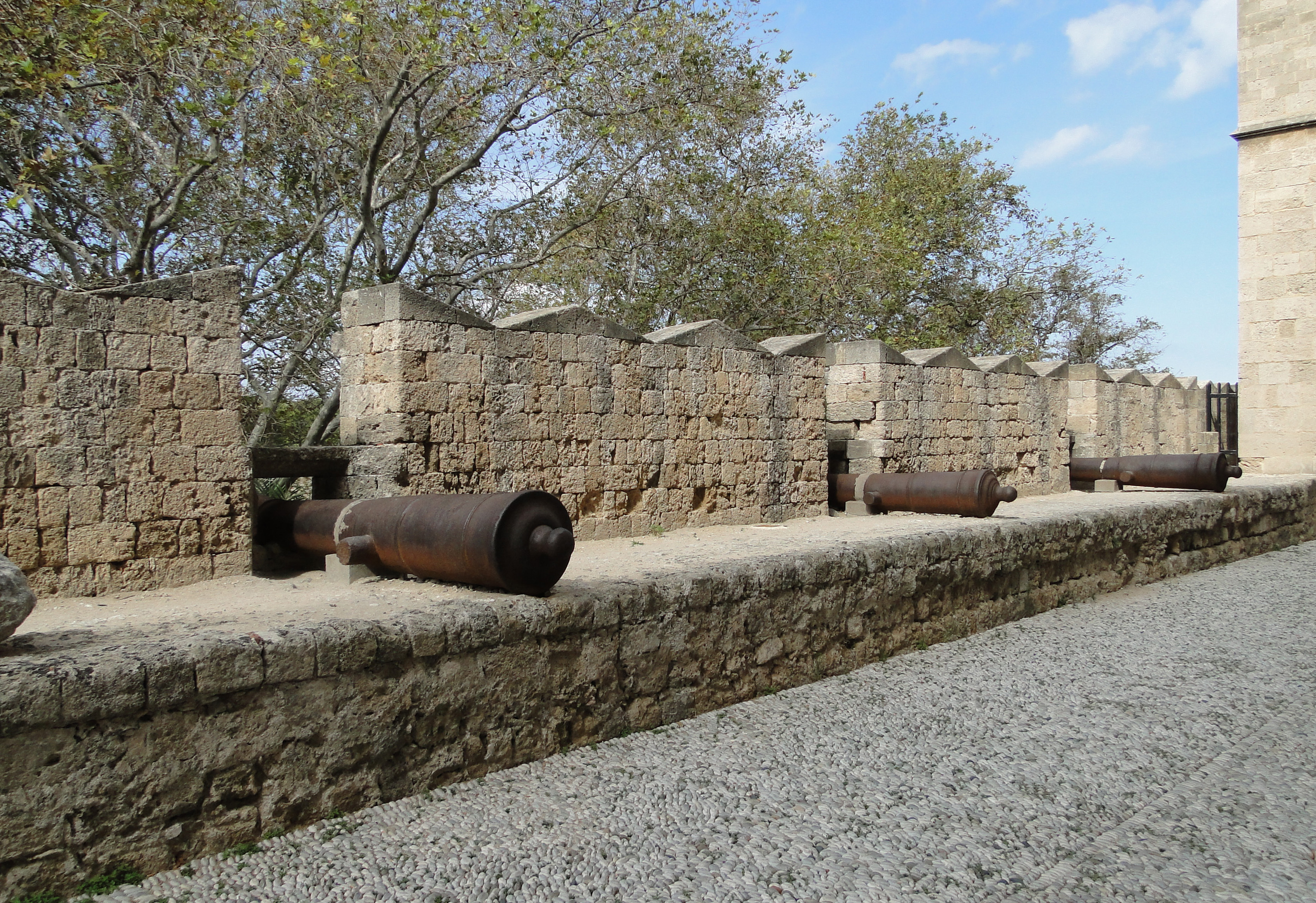 Cannons in the bastion on the West side of the Palace of the Grand Master of the Knights of Rhodes, Greece